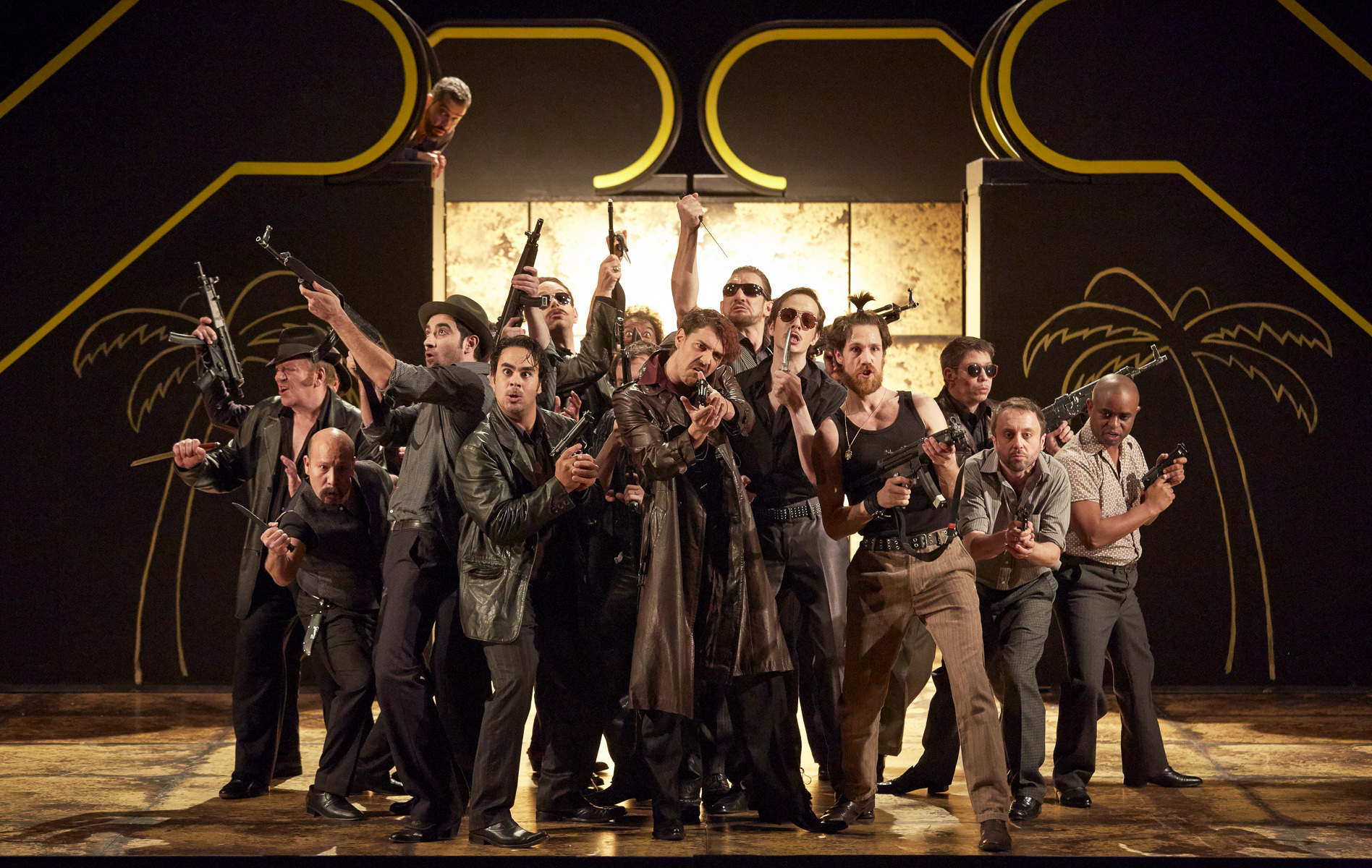 ALI BABA Charles Lecocq Production Opéra Comique 2014 Photo: Pierre Grosbois ( direction musicale Jean-Pierre Haeck mise en scene Arnaud Meunier collaboration aux mouvements Jean-Charles Di Zazzo decors Damien Caille-Perret costumes Anne Autran Dumour lumieres Nicolas Marie dramaturgie Laure Bonnet assistante musicale Alexandra Cravero assistante mise en scene Elsa Imbert chef de chant, Christophe Manien chef de choeur Christophe Grapperon Morgiane, Sophie Marin-Degor / Judith Fa (16 mai)* Zobeide, Christianne Belanger* Ali-Baba, Tassis Christoyannis Zizi, Philippe Talbot Cassim, Francois Rougier Saladin, Mark van Arsdale* Kandgiar, Vianney Guyonnet* Maboul, le Cadi, Thierry Vu Huu comediens, Logan De Carvalho, Nikola Krminac choeur Accentus - Opera de Rouen Haute-Normandie orchestre Opera de Rouen Haute-Normandie chanteurs de l'Academie de l'Opera Comique